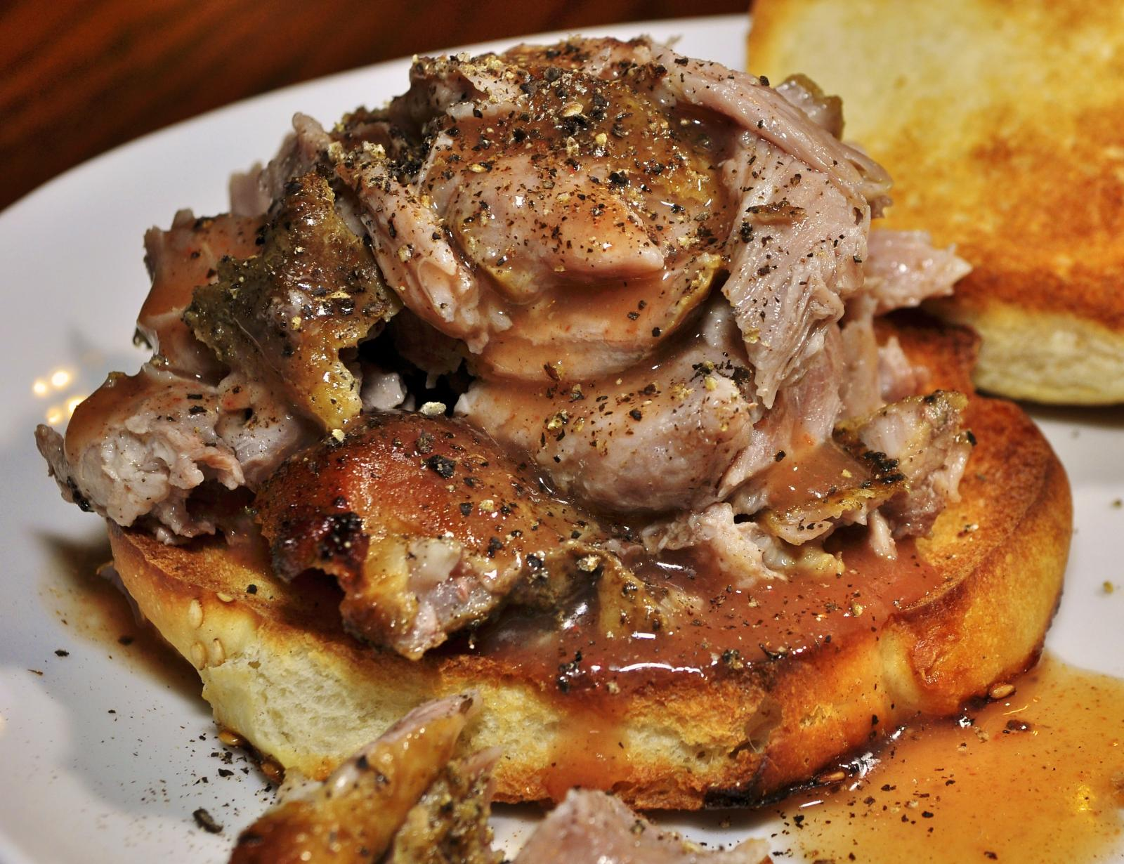 Pulled pork sandwich (BBQ sauce recipe)